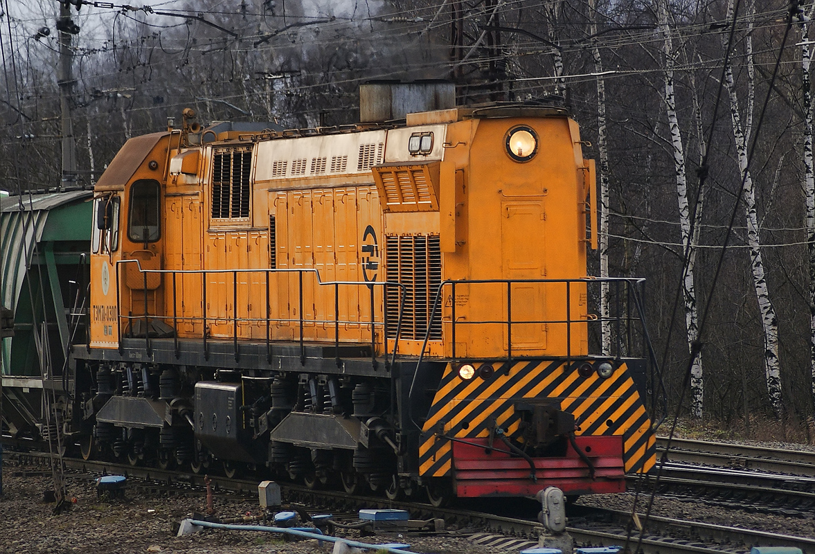 TEM7A-0300 shunting diesel locomotive at the Orekhovo-2 station of Moscow Railway